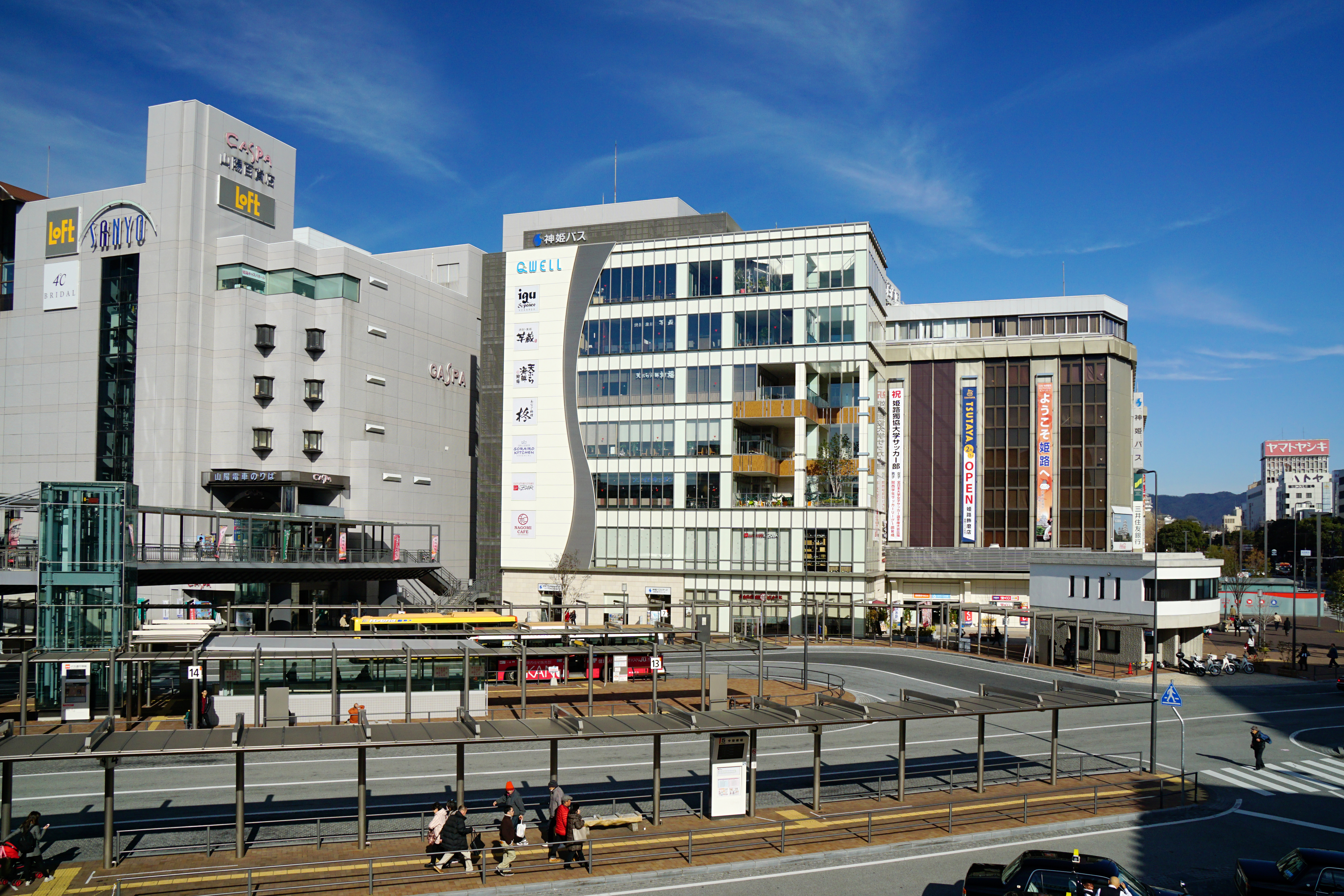 Himeji Station in Himeji, Hyogo prefecture, Japan